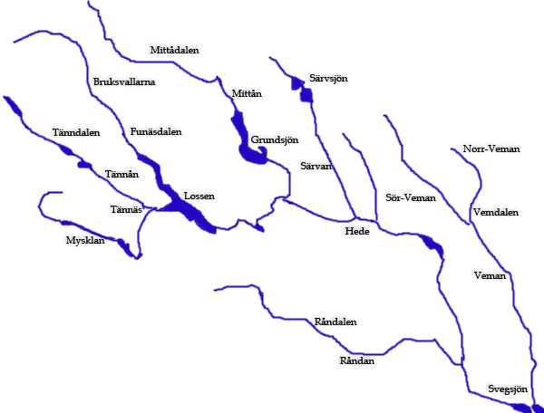 Author: Christian Gidlöf